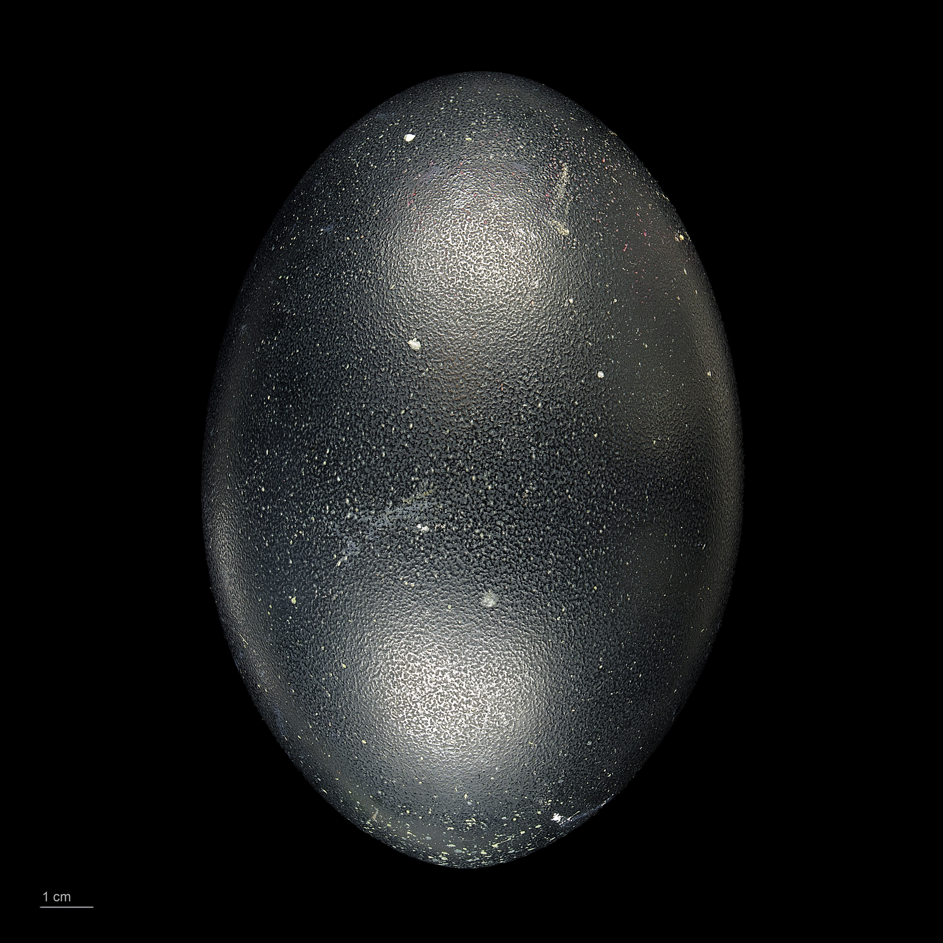 Egg of Emu Collection of Jacques Perrin de Brichambaut.